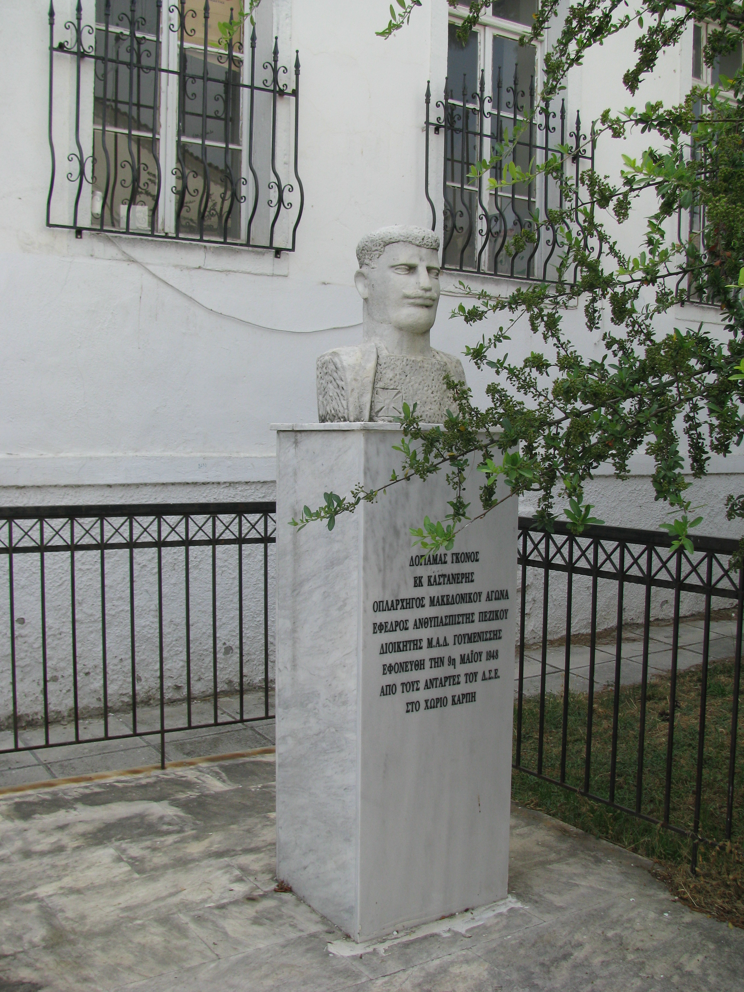 Monument of Gono Doyamov in Gumendzhe or Goumenissa, Greece